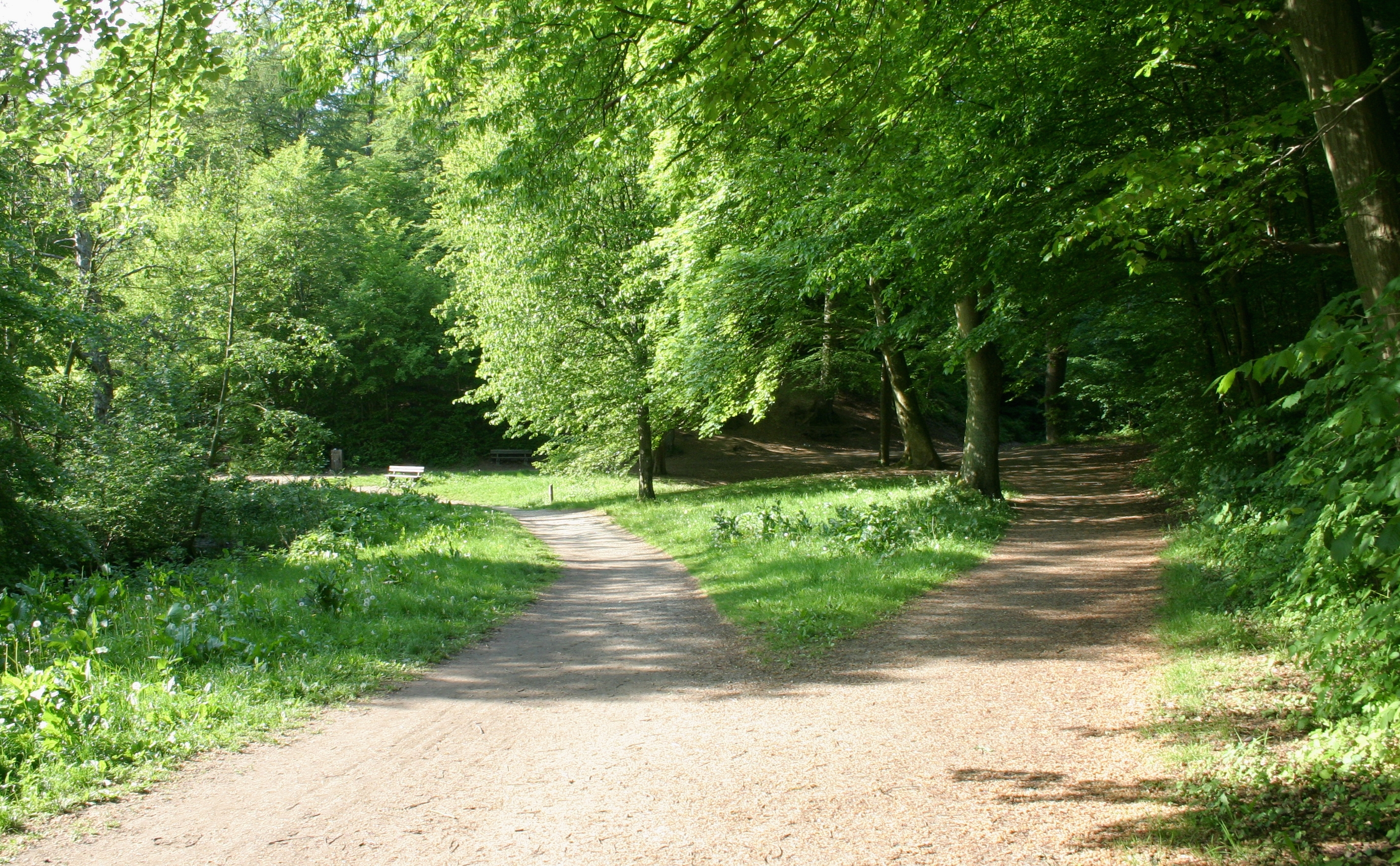 The forest of Marielund in Kolding,Denmark.